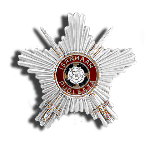 Order of the Cross of Liberty, 1st Class. Breast Star with Swords